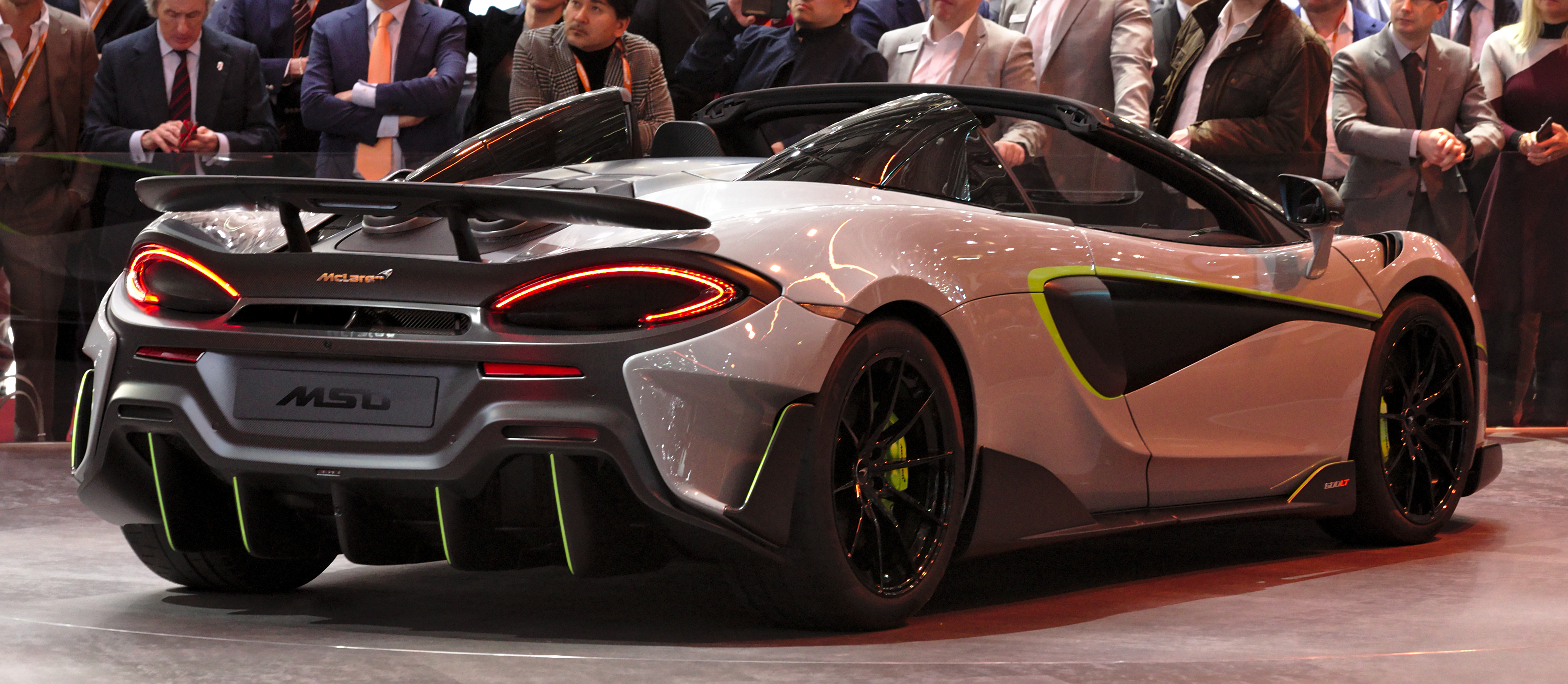 McLaren 600LT Spider MSO at Geneva Motor Show 2019